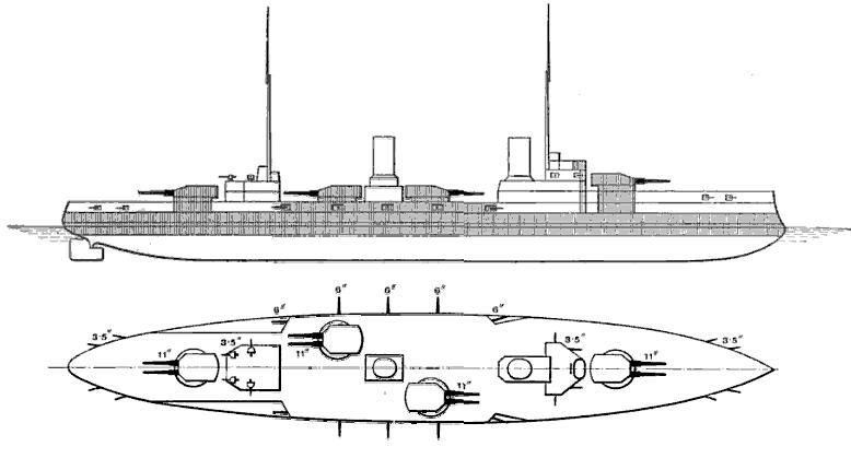 Line drawing of the German battlecruiser SMS Von der Tann.